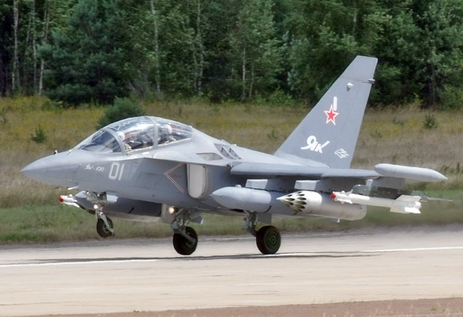 Yak-130 demonstration on MAKS 2009